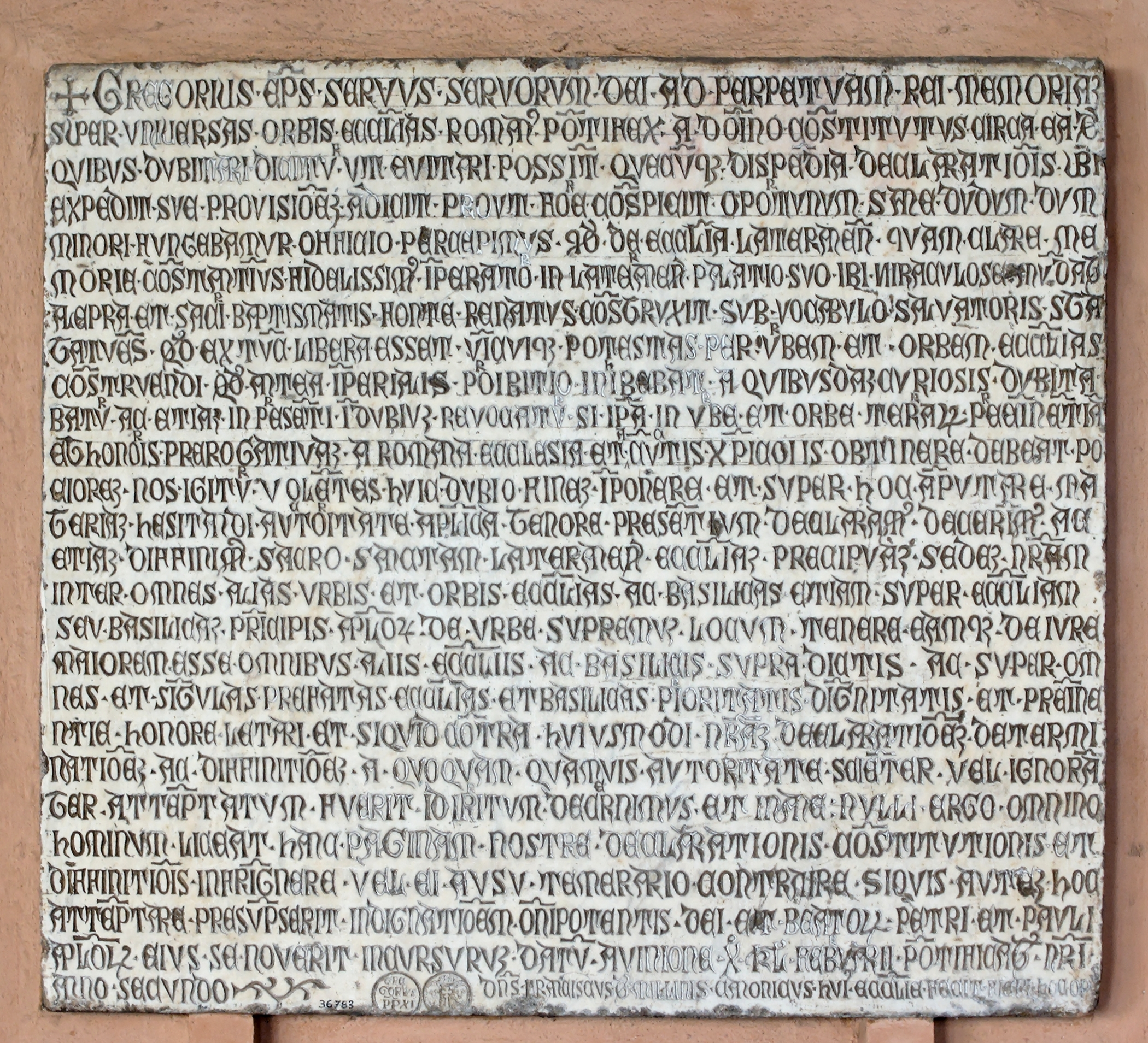 Text of a bull by Gregory XI. Cloister of the Basilica of St. John Lateran (Rome).